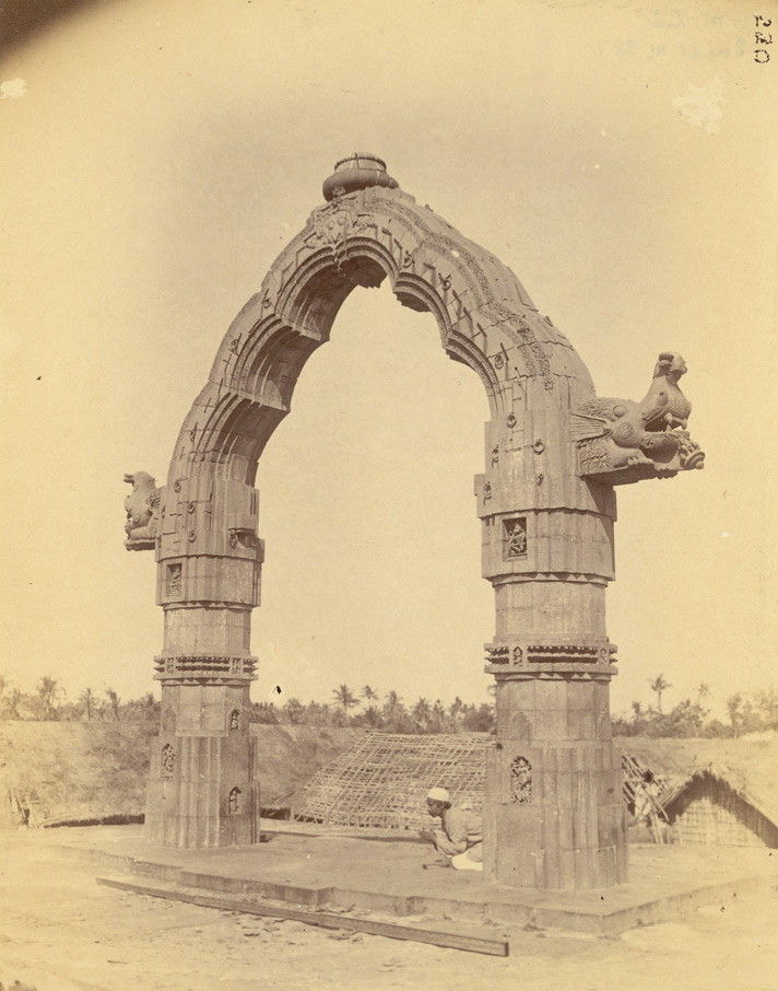 Dola Mandap in Jagannath temple, Puri